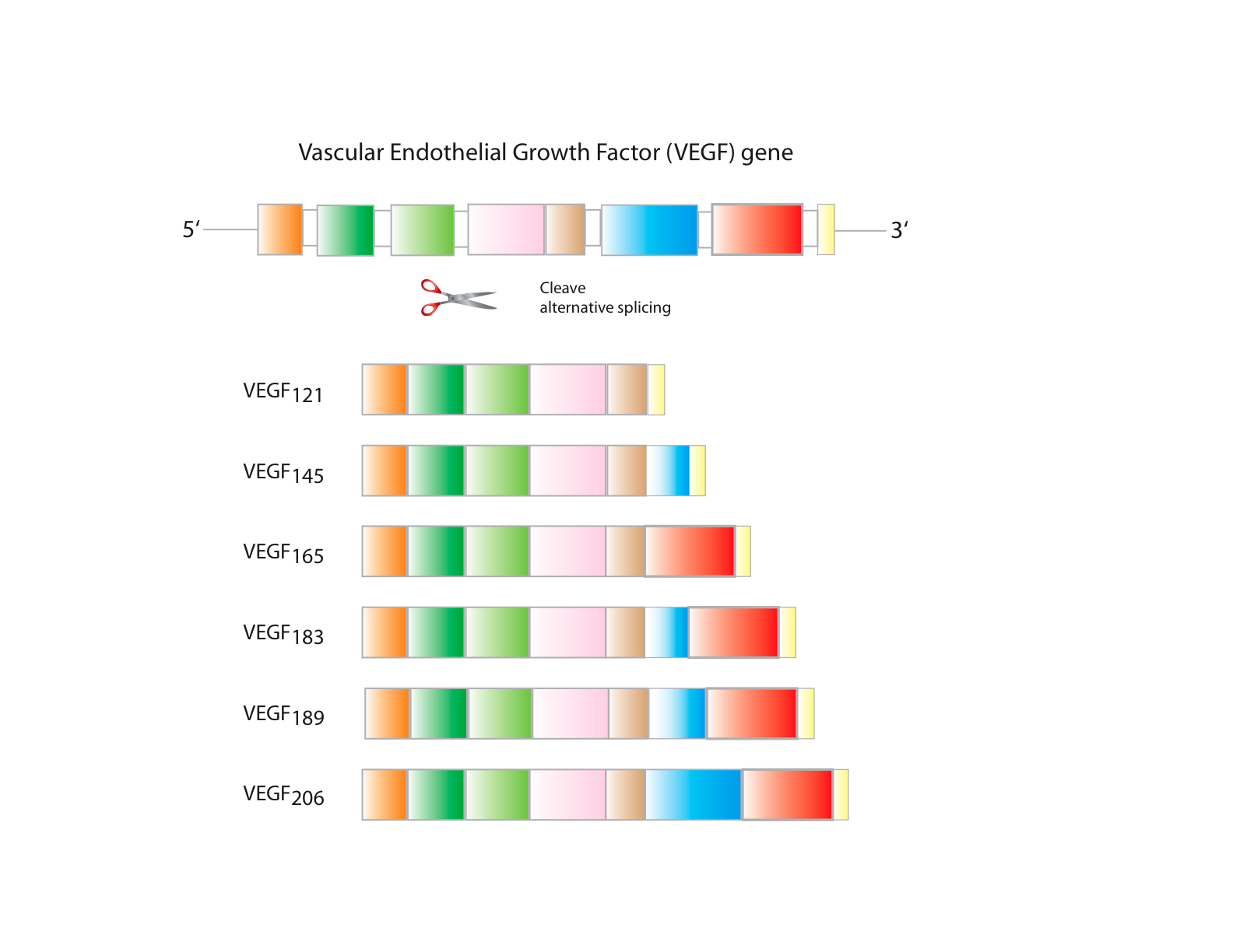 Schematic representation of the different isoforms of human vascular endothelial growth factor.